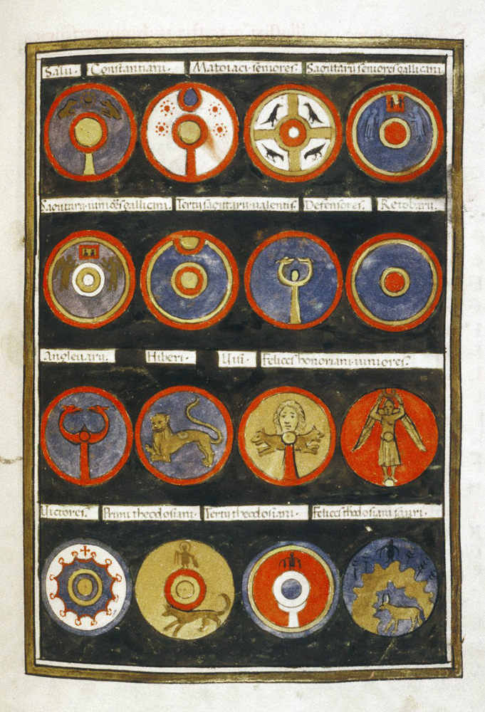 Magister Magister Praesentalis I page 2 (Insignia of the magister peditum) from Notitia dignitatum 1° row 2° row 3° row 4° row